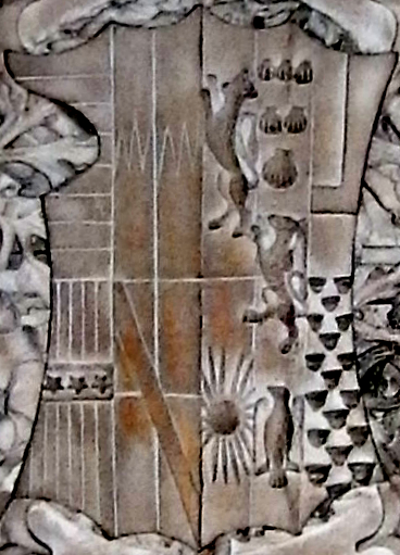 Shield showing arms of Poynts impaling Woodville, ceiling boss of Poyntz Chapel withi the gaunt's Chapel in Bristol. Arms of Sir Robert Poyntz (died 1520), lord of the manor of Iron Acton in Gloucestershire, and builder of the Poyntz Chapel, impaling arms of his wife Margaret Woodville, the illegitimate daughter and only child of Anthony Woodville, 2nd Earl Rivers, by his mistress Gwenlina Stradling, a daughter of William Stradling of St Donat's Castle in Glamorgan, Wales.